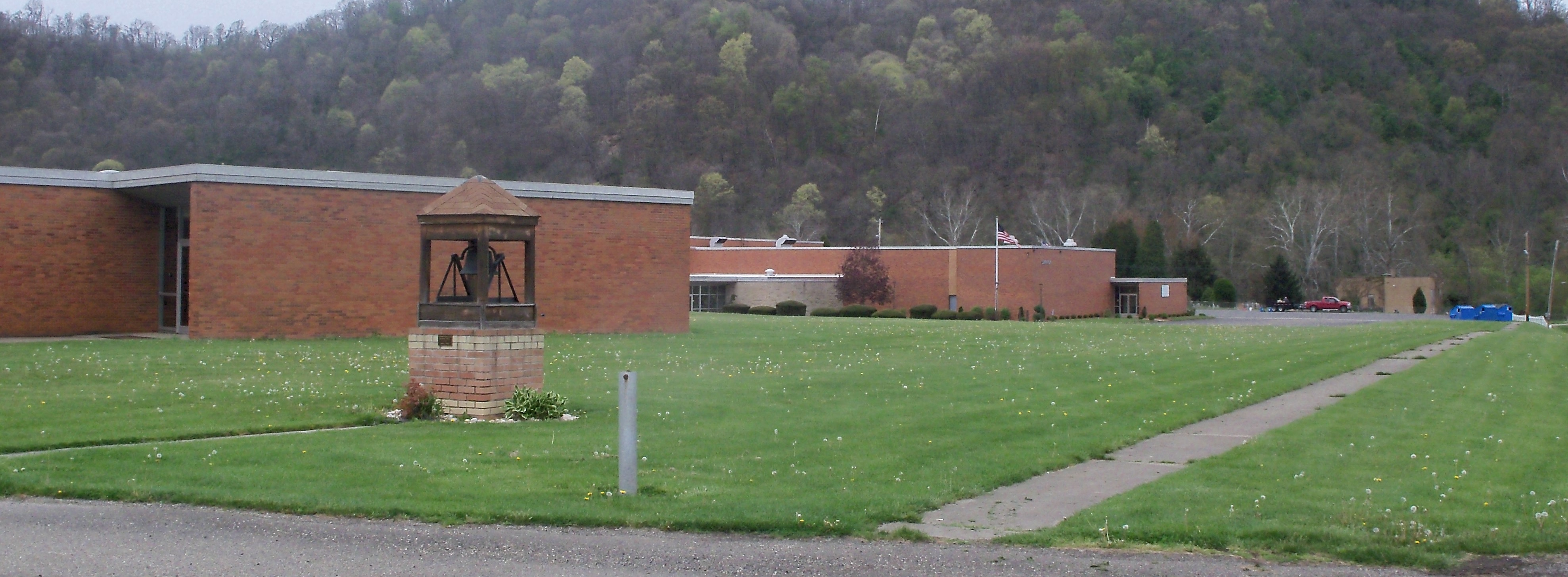 Stanton Elementary School in Hammondsville, Ohio, associated with Edison Local School District